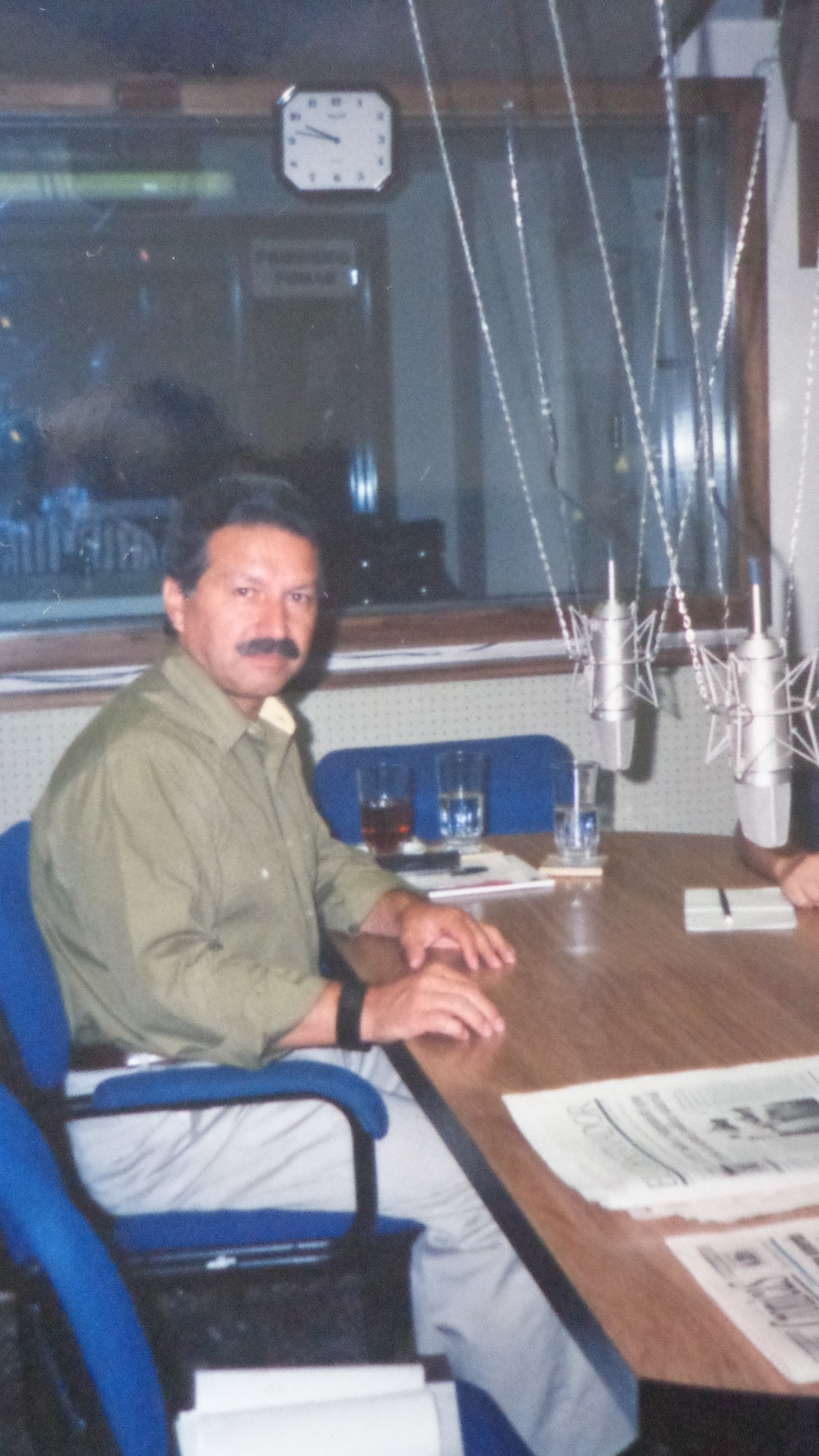 Néber Araújo in the radiostudio of CX24 Radio Nuevotiempo 1010 kHz owned and operated by SADREP of Montevideo, Uruguay (December, 1994).